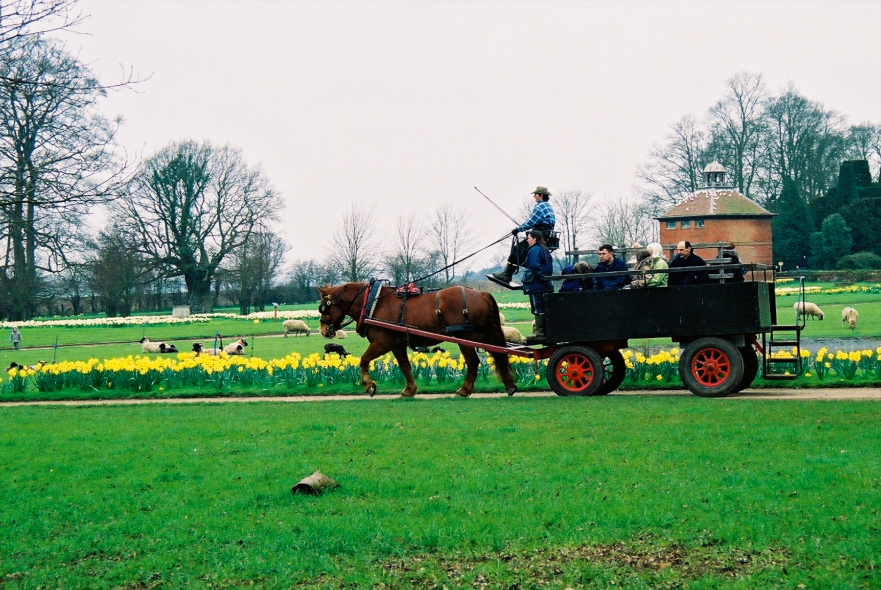 Tudor Stately Home, Long Melford, Sudbury